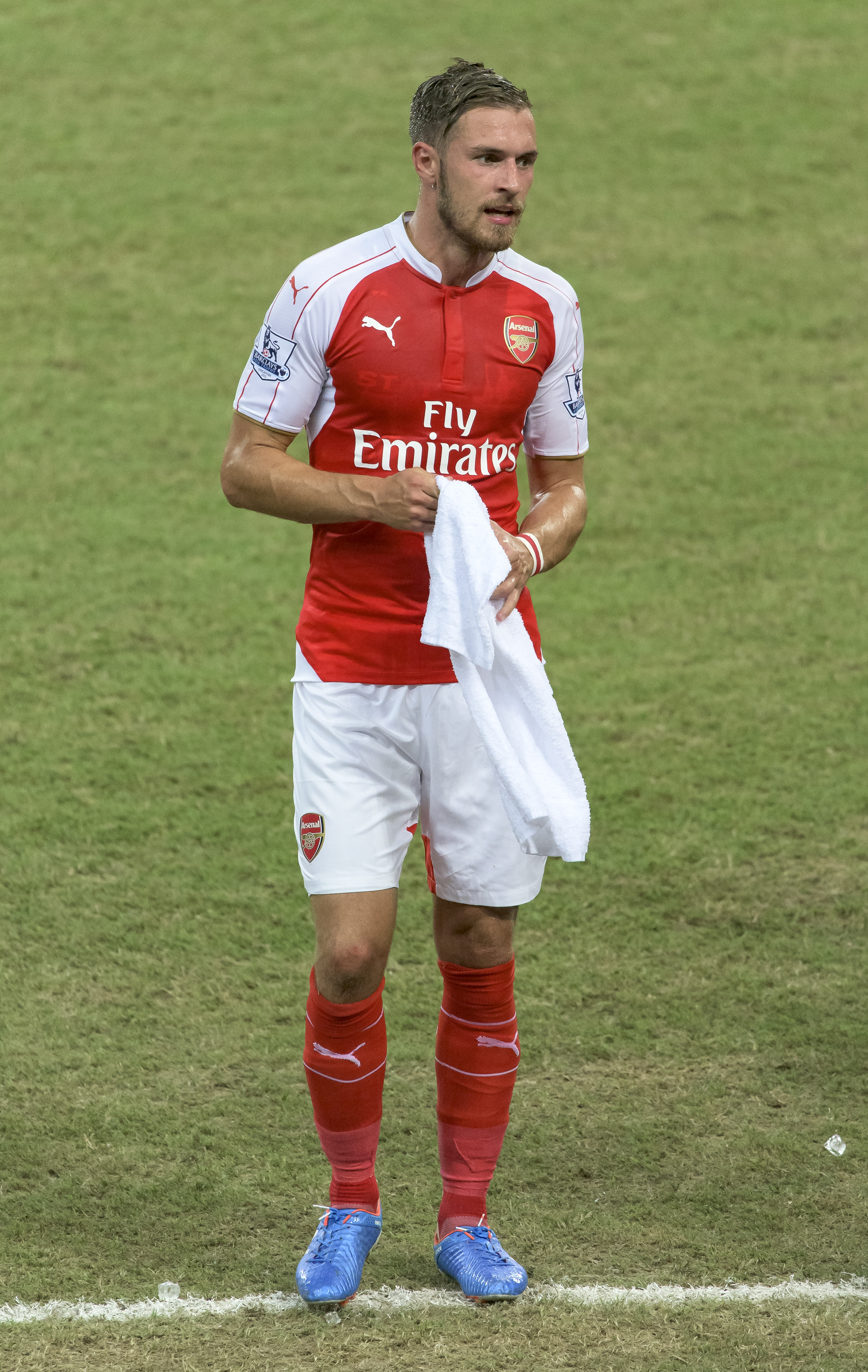 aaron ramsey 2015 arsenal everton barclays asia singapore